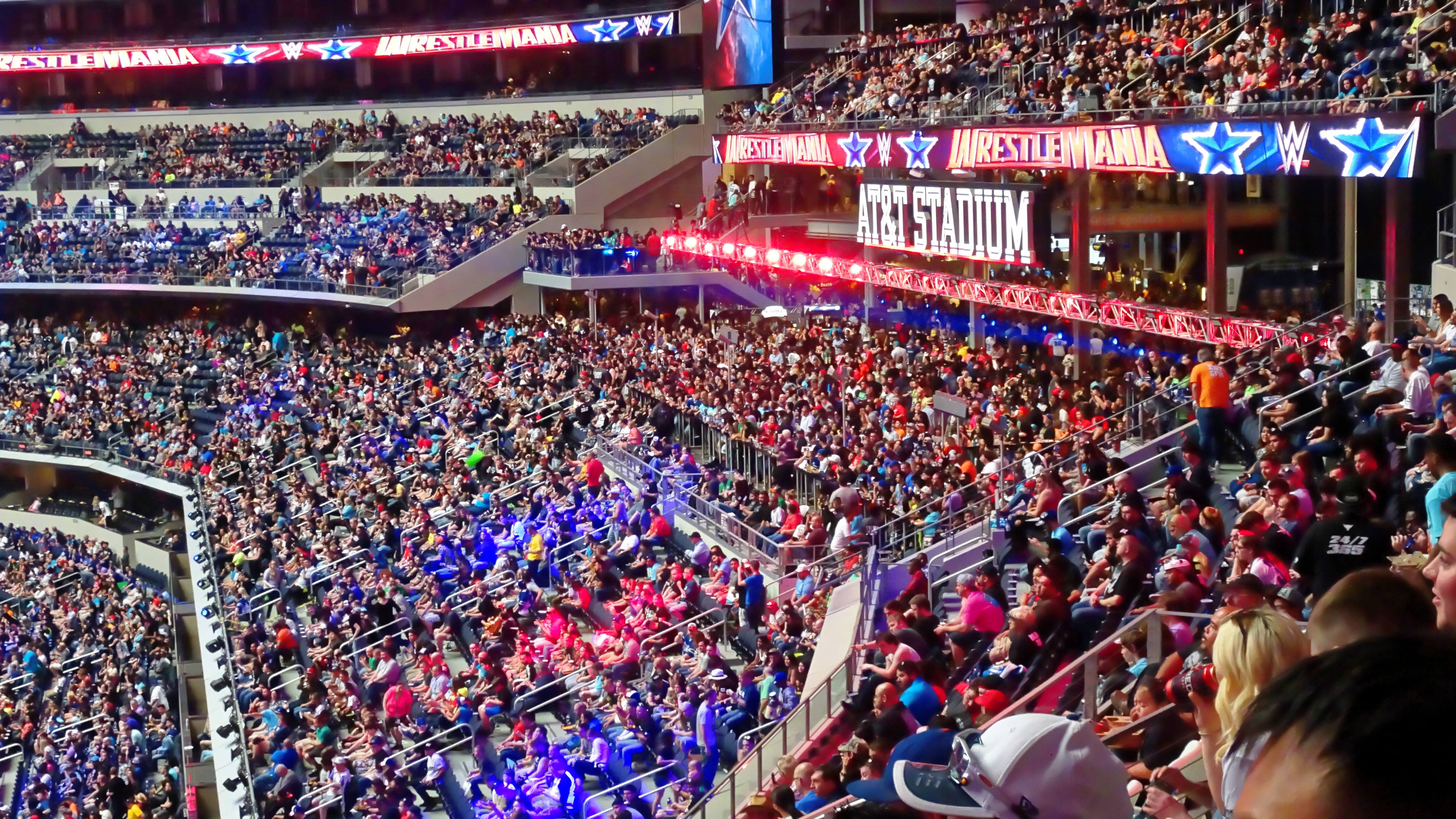 WrestleMania 32 was the thirty-second annual WrestleMania professional wrestling pay-per-view (PPV) event produced by WWE. It took place on April 3, 2016, at AT&T Stadium in Arlington, Texas. Twelve matches were contested on the card (with three matches occurring on the WrestleMania Kickoff pre-show - two airing live on the USA Network, which televised the second hour of the pre-show). Alicia Fox & Brie Bella & Eva Marie & Natalya & Paige def. (sub) Emma & Lana & Naomi & Summer Rae & Tamina (in 11:26) Type of match : dark 10-person tag Rating : **1/4